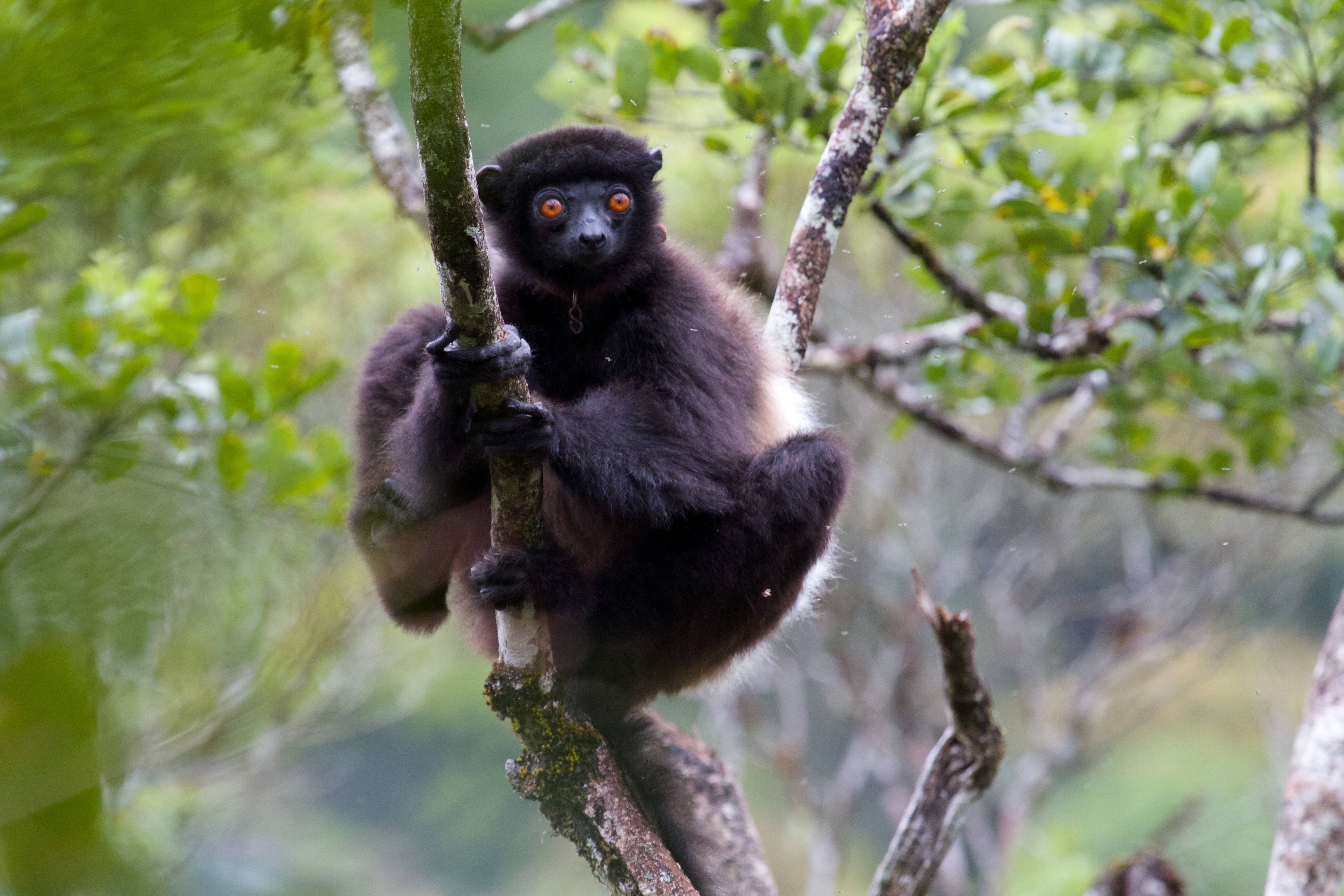 Milne-Edwards' sifaka (Propithecus edwardsi)